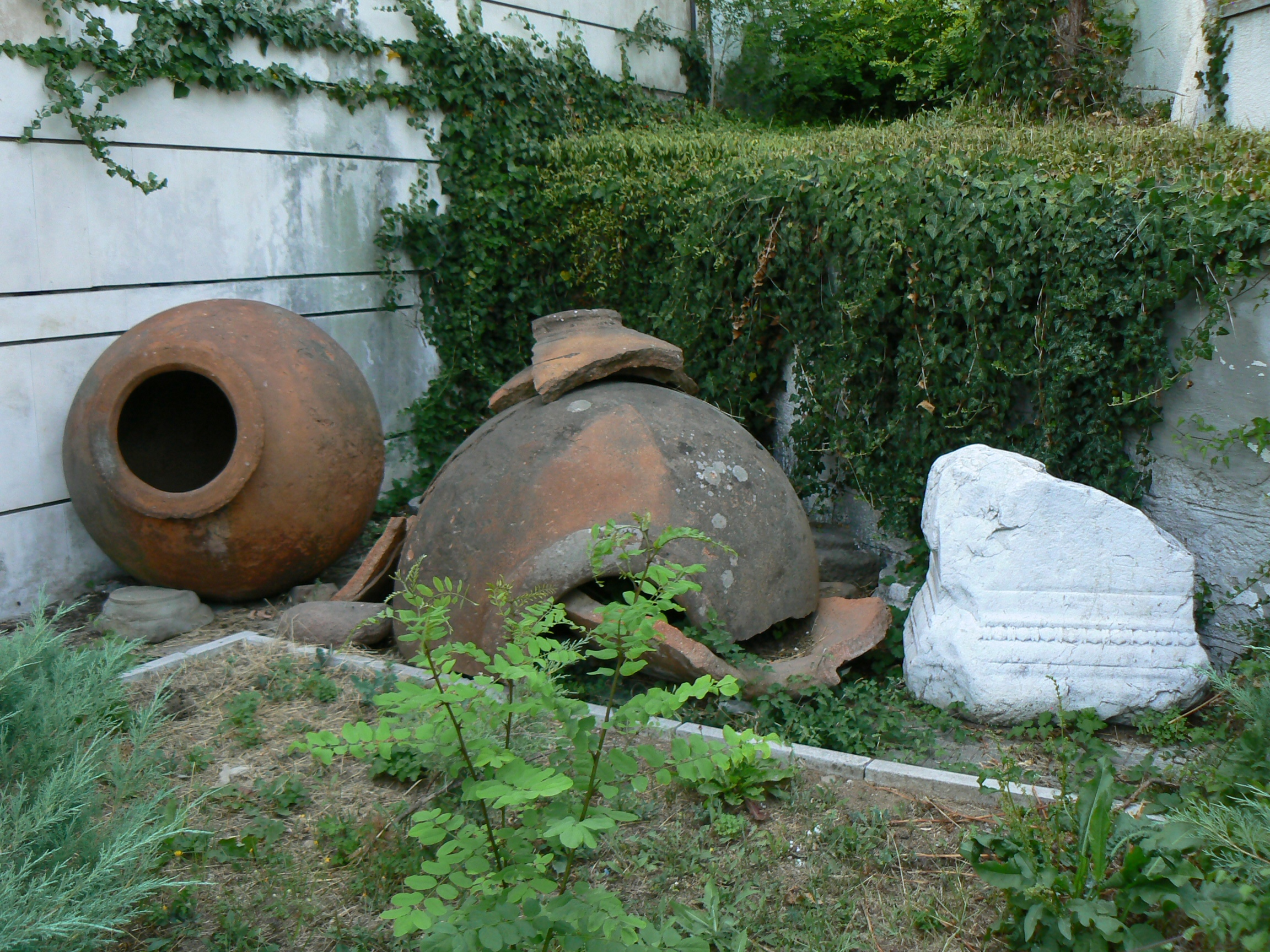 The lapidarium in front of the history museum in Pernik, Bulgaria